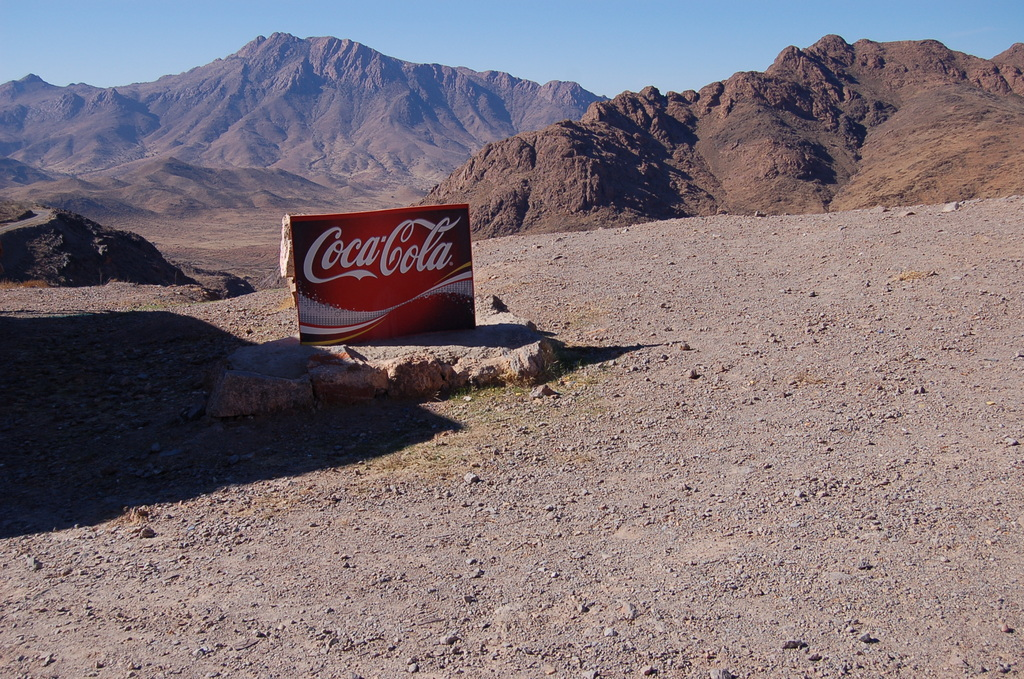 Sign “ Coca-Cola ” in the mountains of the High Atlas, in Berber country (Morocco).